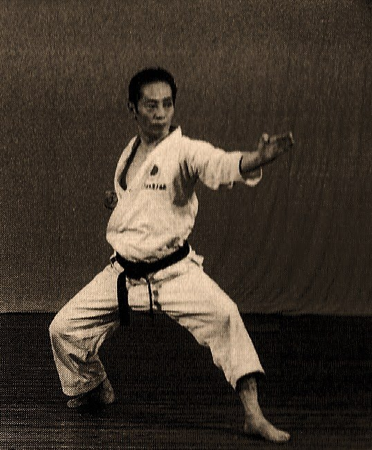 Kata Tetsuhiko Asai